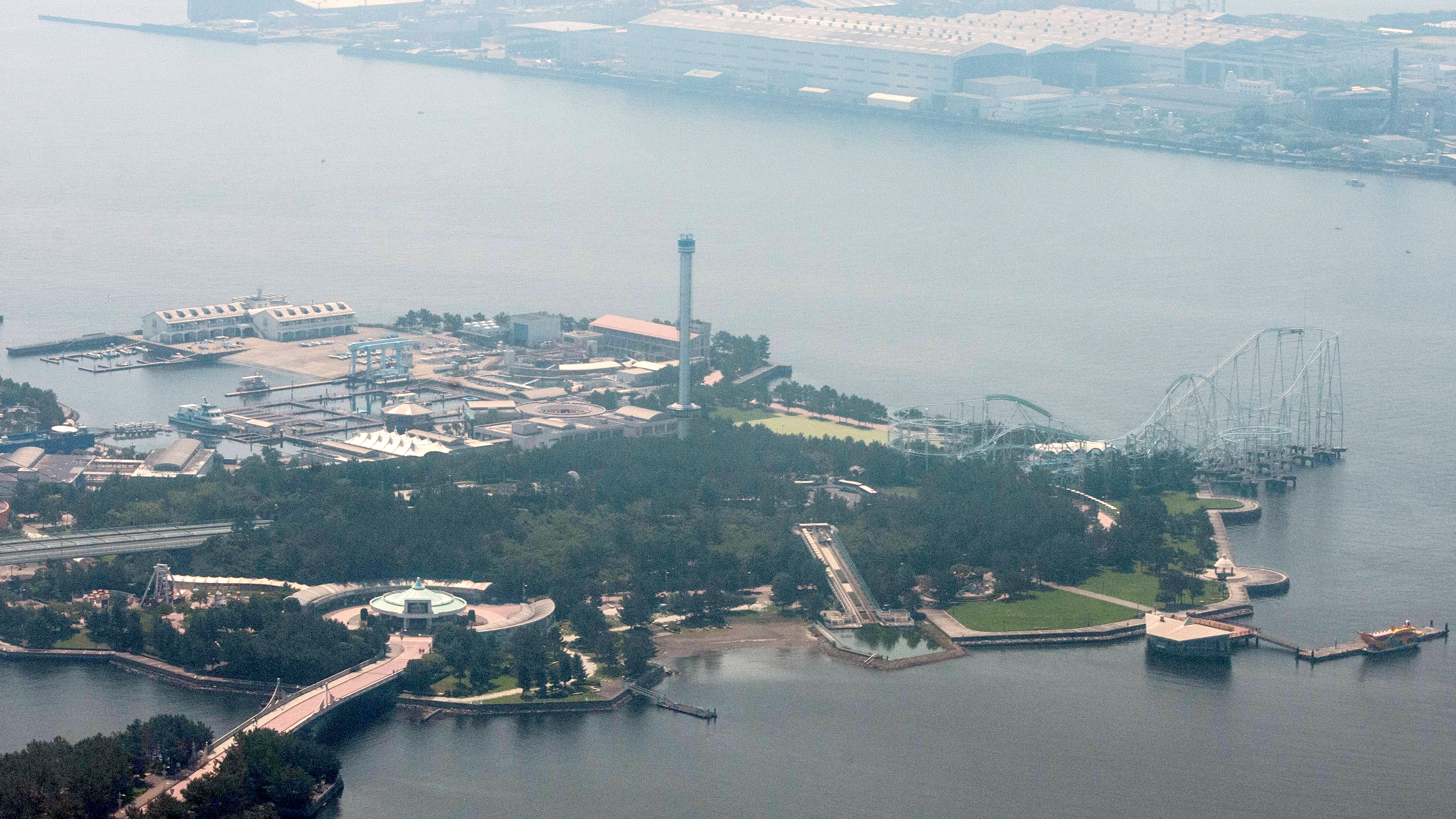 Yokohama Hakkeijima Sea Paradise and the Hakkeihima Marina in Yokohama, Japan. Photograph taken from a UH-60 Blackhawk helicopter that departed on July 10 from Camp Zama, Japan with Army Maj. Gen. James F. Pasquarette shortly after he assumed command of U.S. Army Japan (USARJ) July 8, 2015.